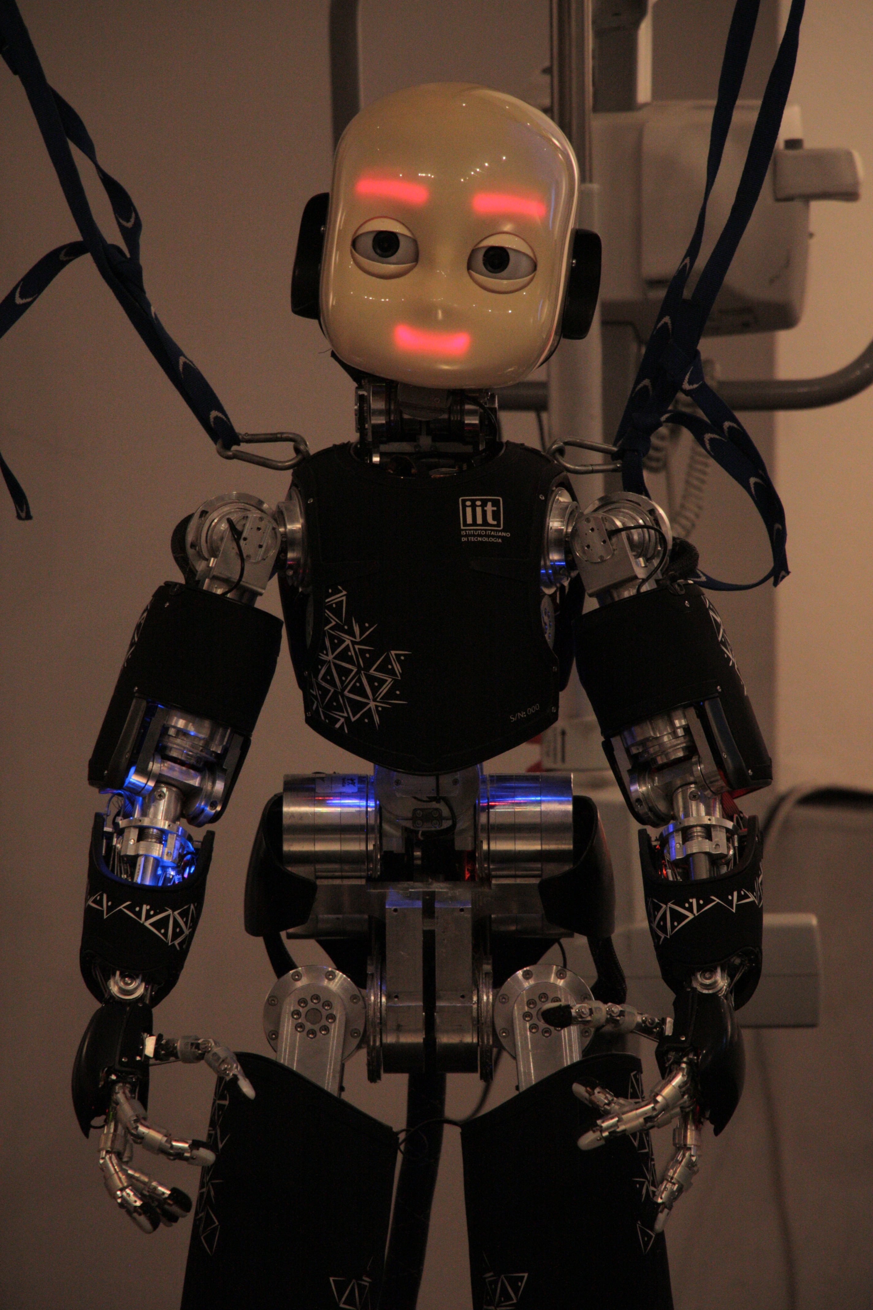 iCub, il robot androide